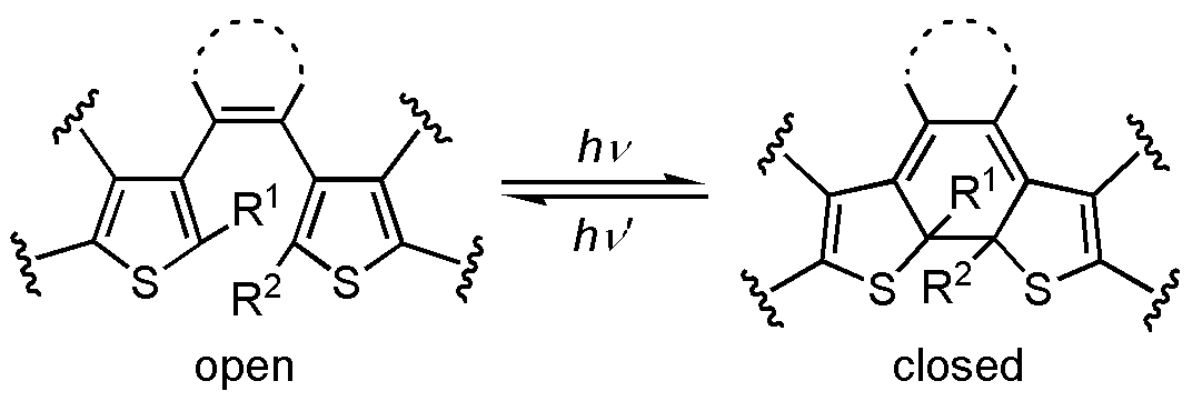 Description: Photochromism of diarylethene (1,2-dithienylethene). Source = Selfmade. Date = 5 Aug 2006. Made with ChemDraw.